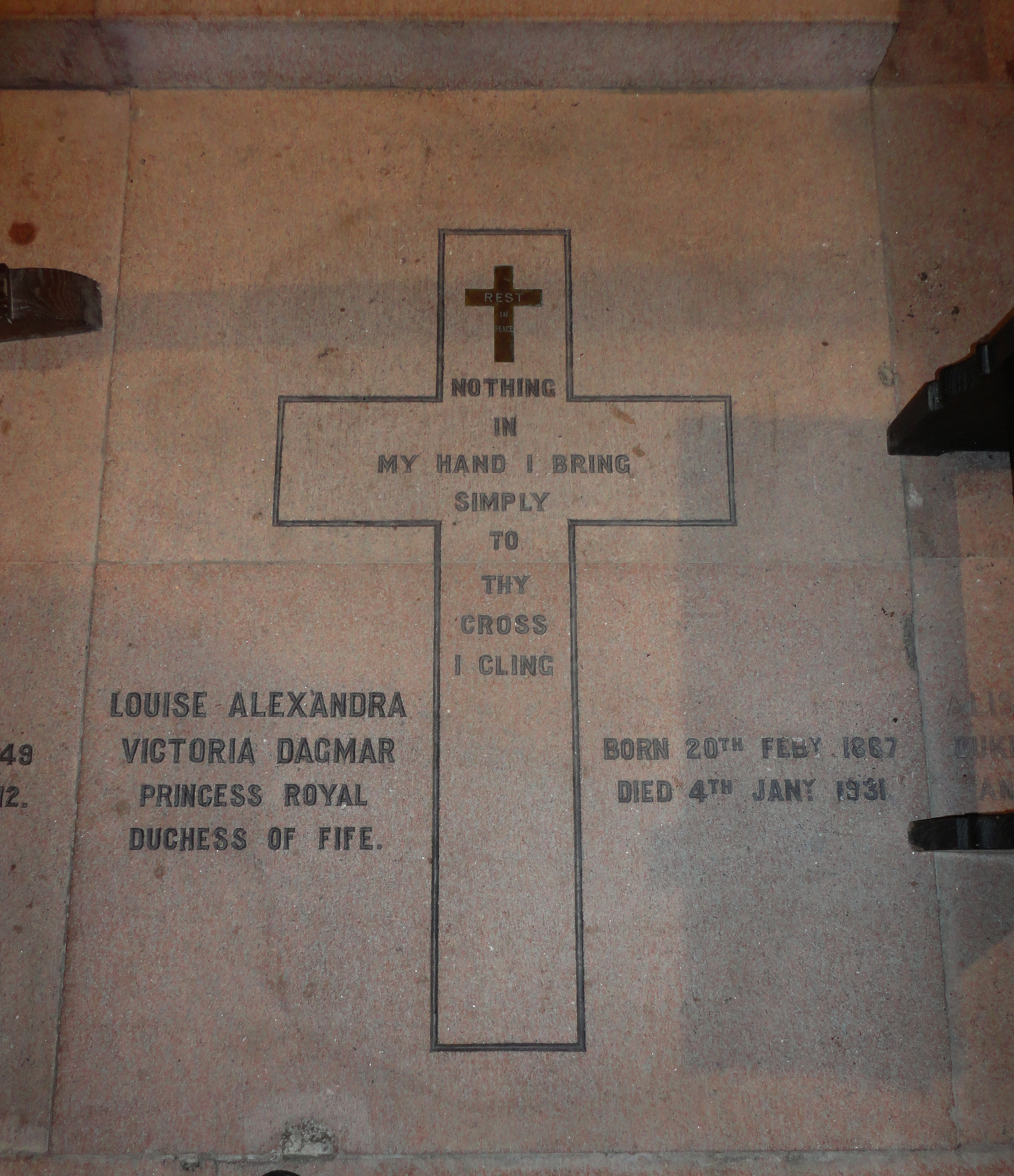 Braemar, Mar Lodge Estate, St Ninian's Chapel - floor slab marking the grave of Princess Louise, Princess Royal (1867–1931). She married the 1st Duke of Fife.